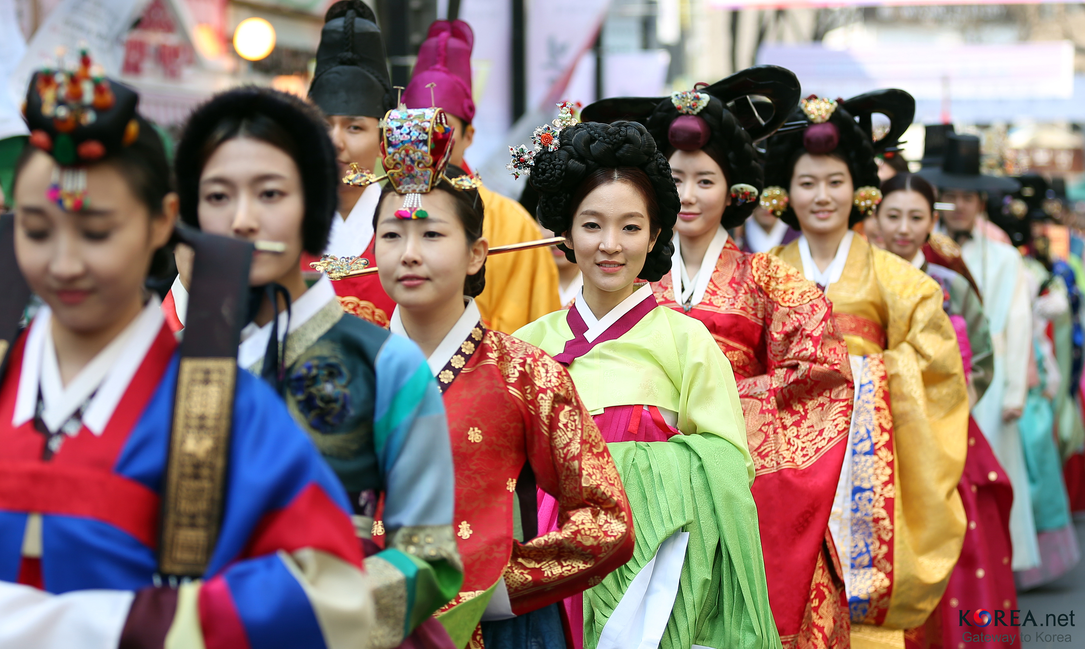 Spring of Insa-dong Hanbok Parade 2014.03.22. Insa-dong, Jongno-gu, Seoul Ministry of Culture, Sports and Tourism Korean Culture and Information Service ( JEON HAN